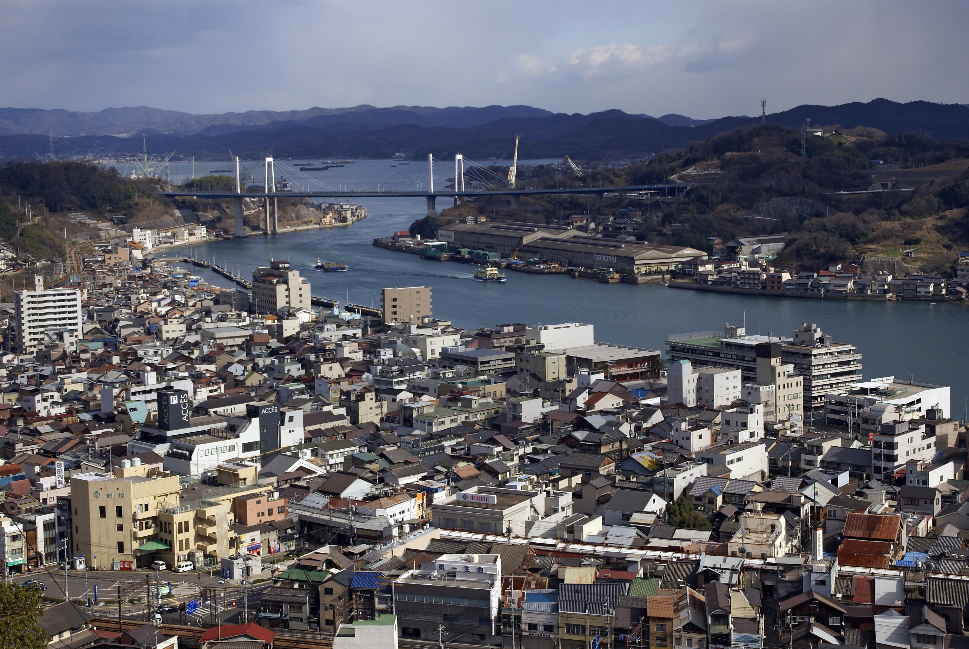 Onomichi Channel in Onomichi, Hiroshima prefecture, Japan